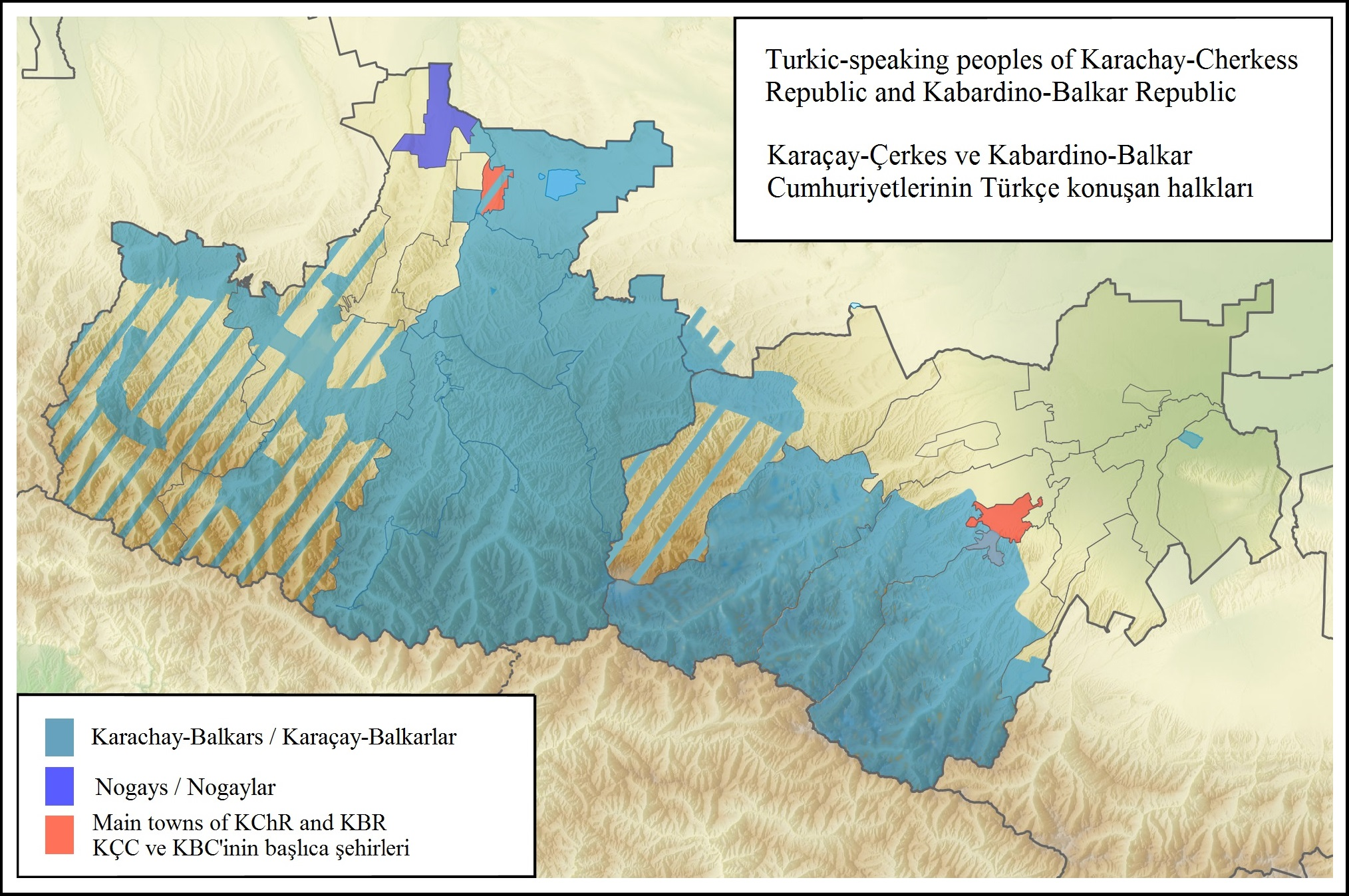 Turkic-speaking peoples of Karachay-Cherkess Republic and Kabardino-Balkar Republic